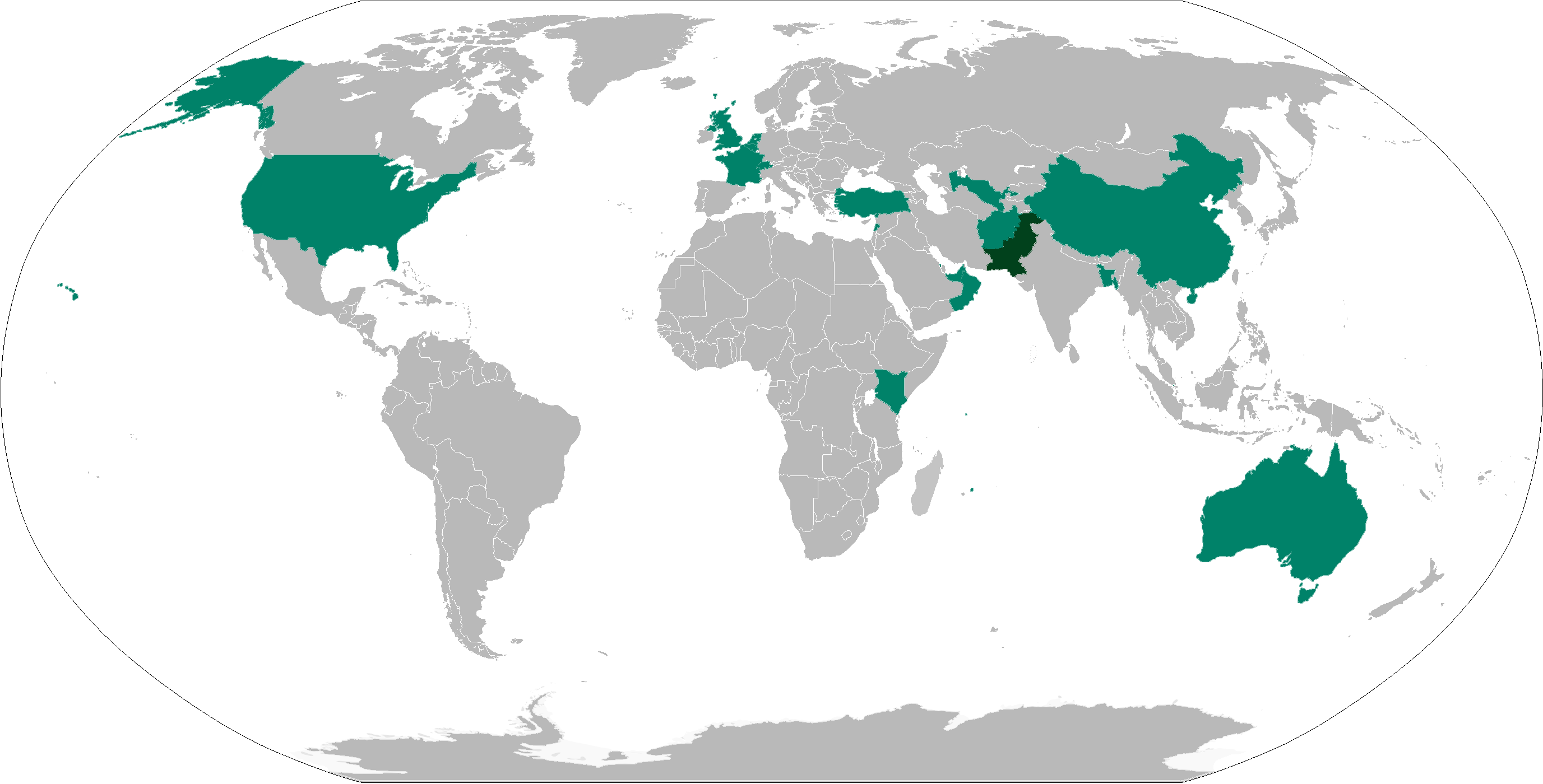 Map depicting worldwide operations of HBL Pakistan. Highlighted countries have branches, subsidiaries and/or representative offices of the bank. Pakistan is highlighted in dark green for reference.